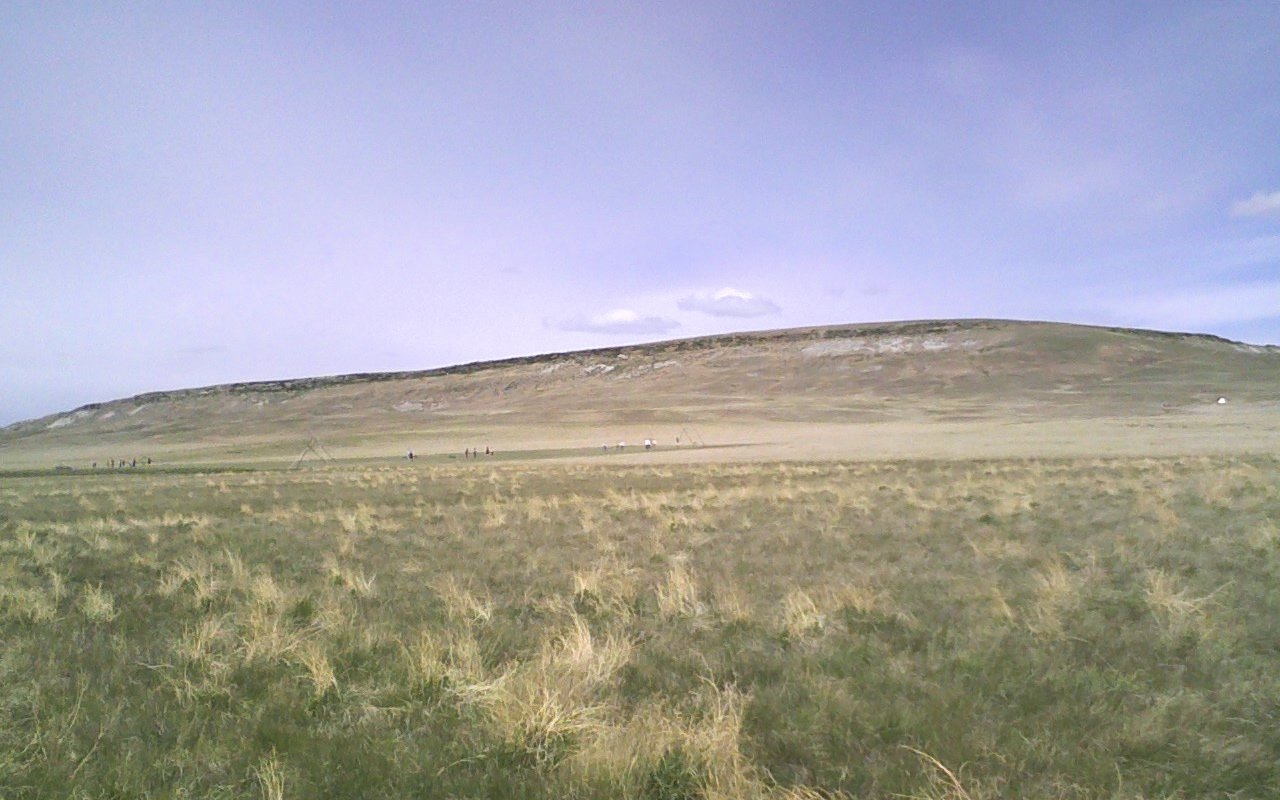 FIrst People's Buffalo Jump, formerly Ulm Pishkun, a buffalo jump at FIrst People's Buffalo Jump State Park, Ulm Montana